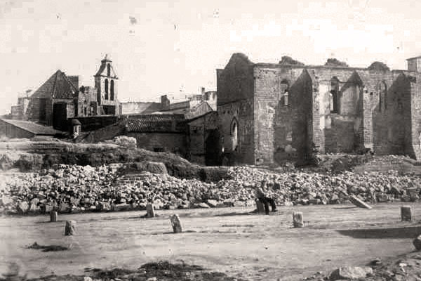 Ruins of the Santa Anna church and monastery, in Barcelona. Circa 1855.